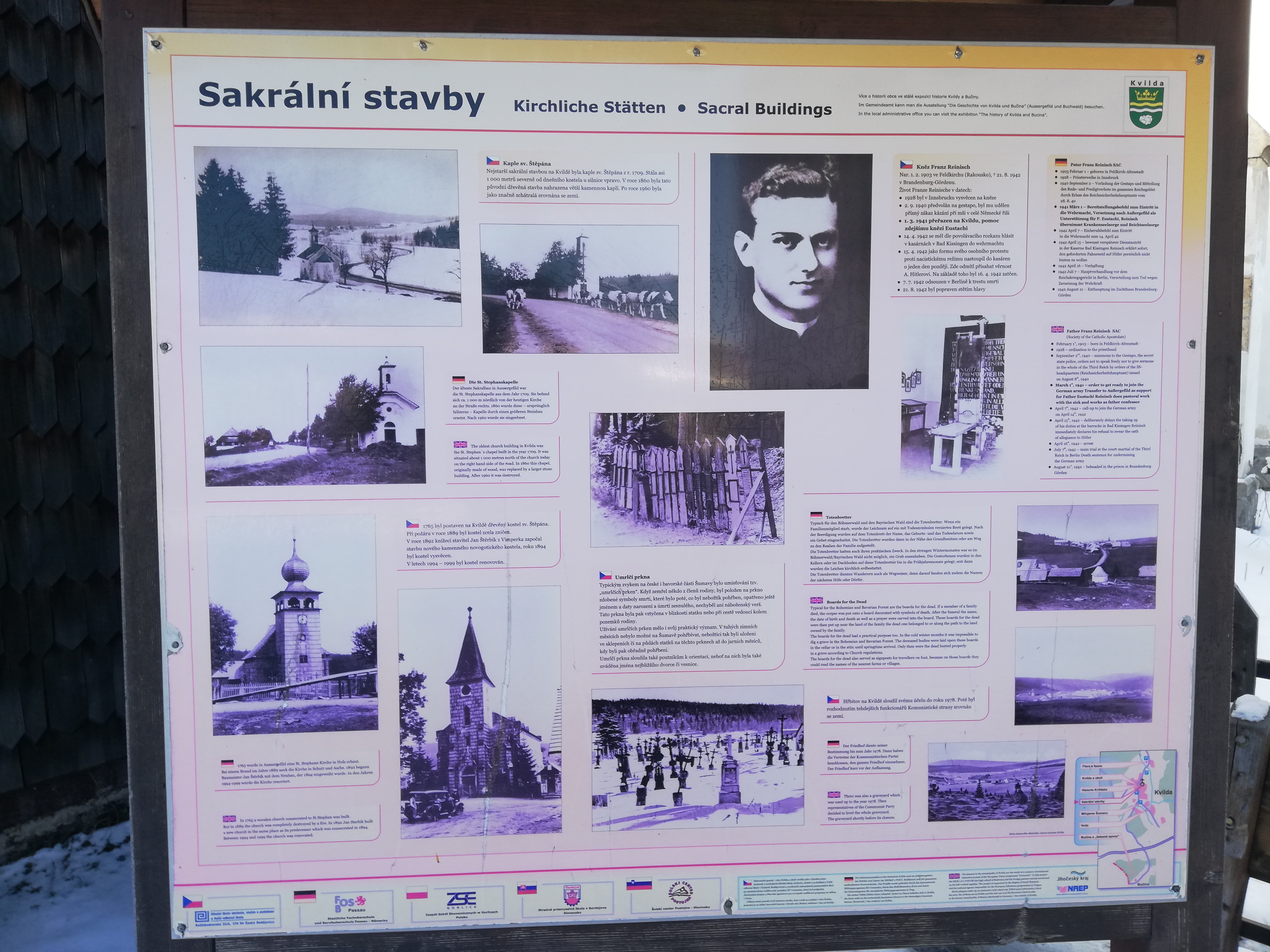 Publicly accessible trilingual (Czech, German, English) written information panel headed "Sacral Buildings" (German: Kirchliche Stätten